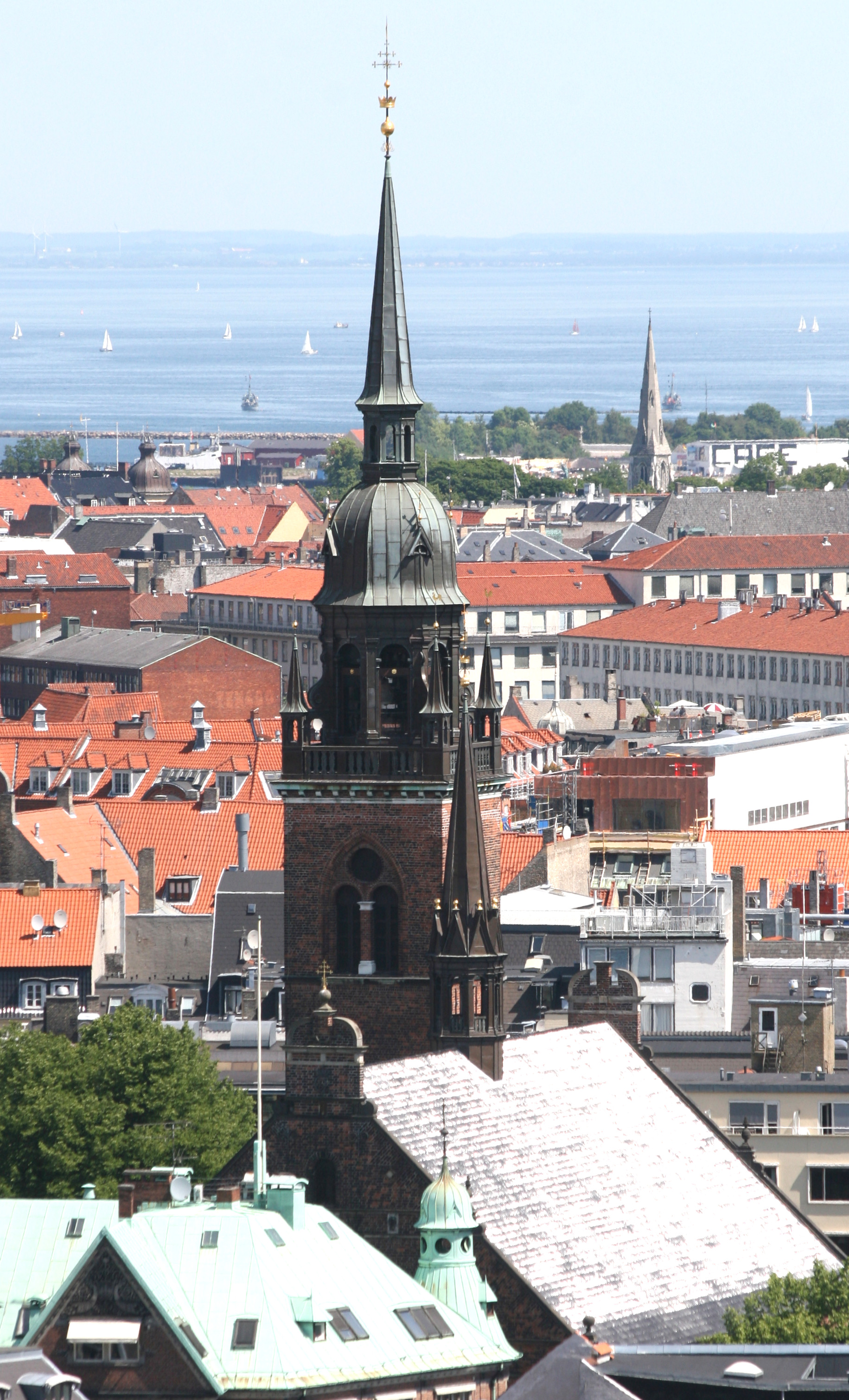 Helligåndskirken, Copenhagen, Denmark. Spire viewed from the Town Hall Tower.